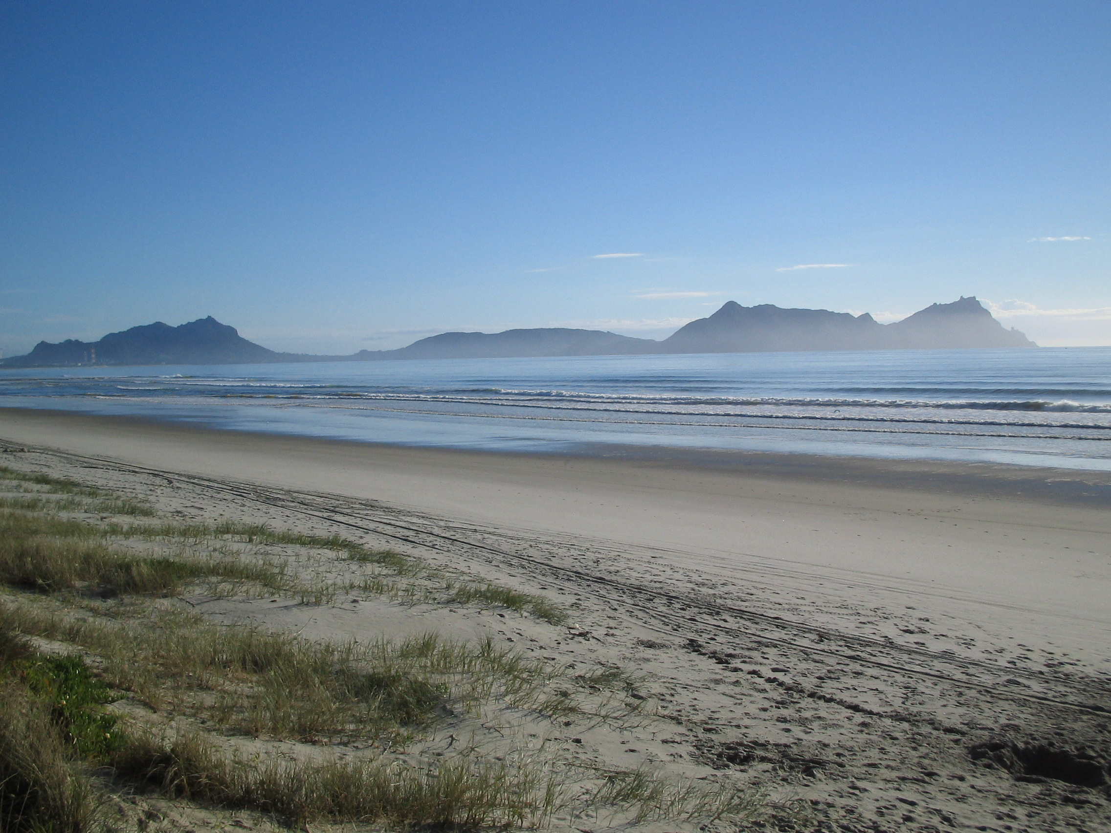 Ruakaka beach, October 2005.